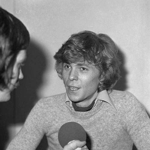 Interview with Jürgen Marcus at the day of the Eurovision Song Contest 1976